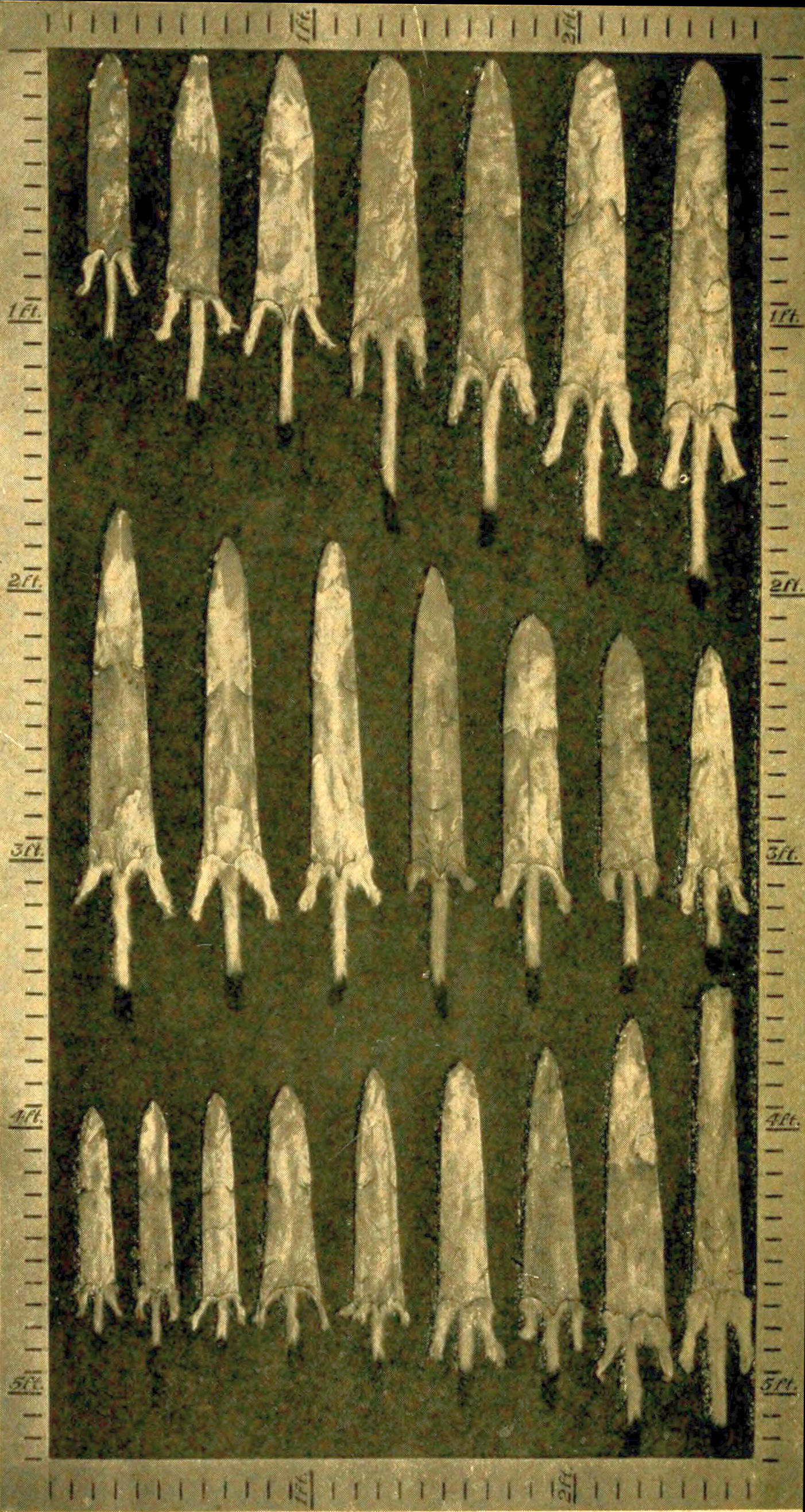 Title: Andersch bros. hunters and trappers guide illustrating the fur bearing animals of North America the skins of which have a market value Year: 1906 (1900s) Authors: [from old catalog]; [from old catalog] Subjects: Hunting; [from old catalog]; Game laws Publisher: [Minneapolis, Minn. , Press of Kimball-Storer co. ] Text Appearing Before Image: M I I I III I i M M I I Text Appearing After Image: WEASEL AND ERMINE SKINS "Raw" AU Siz^s. Scale Shows Inches and Feet